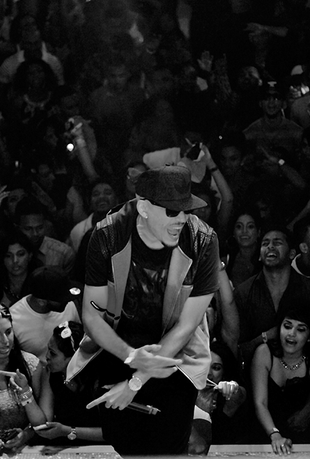 Rupee performing live at the annual I LOVE SOCA event held at the World's Famous Mangos on South Beach.